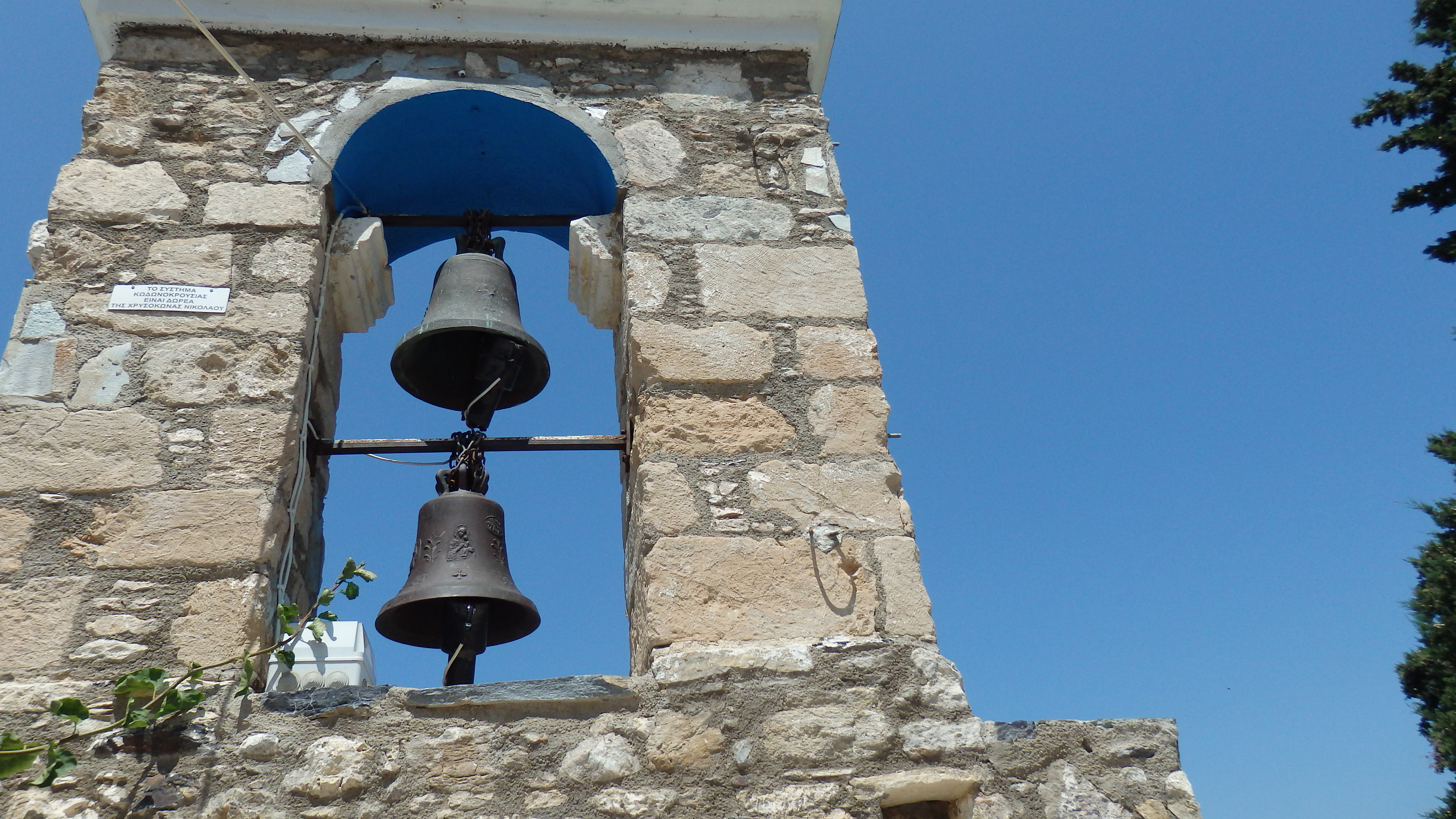 Church in village Zía, Kós